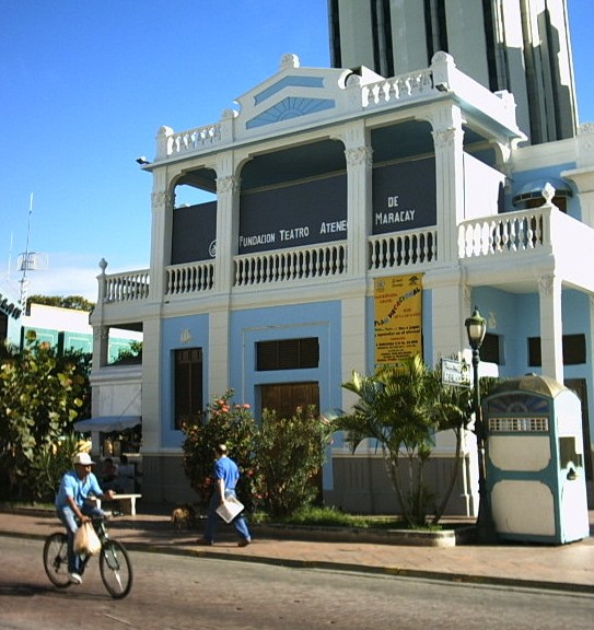 Theater in Maracay - Venezuela.